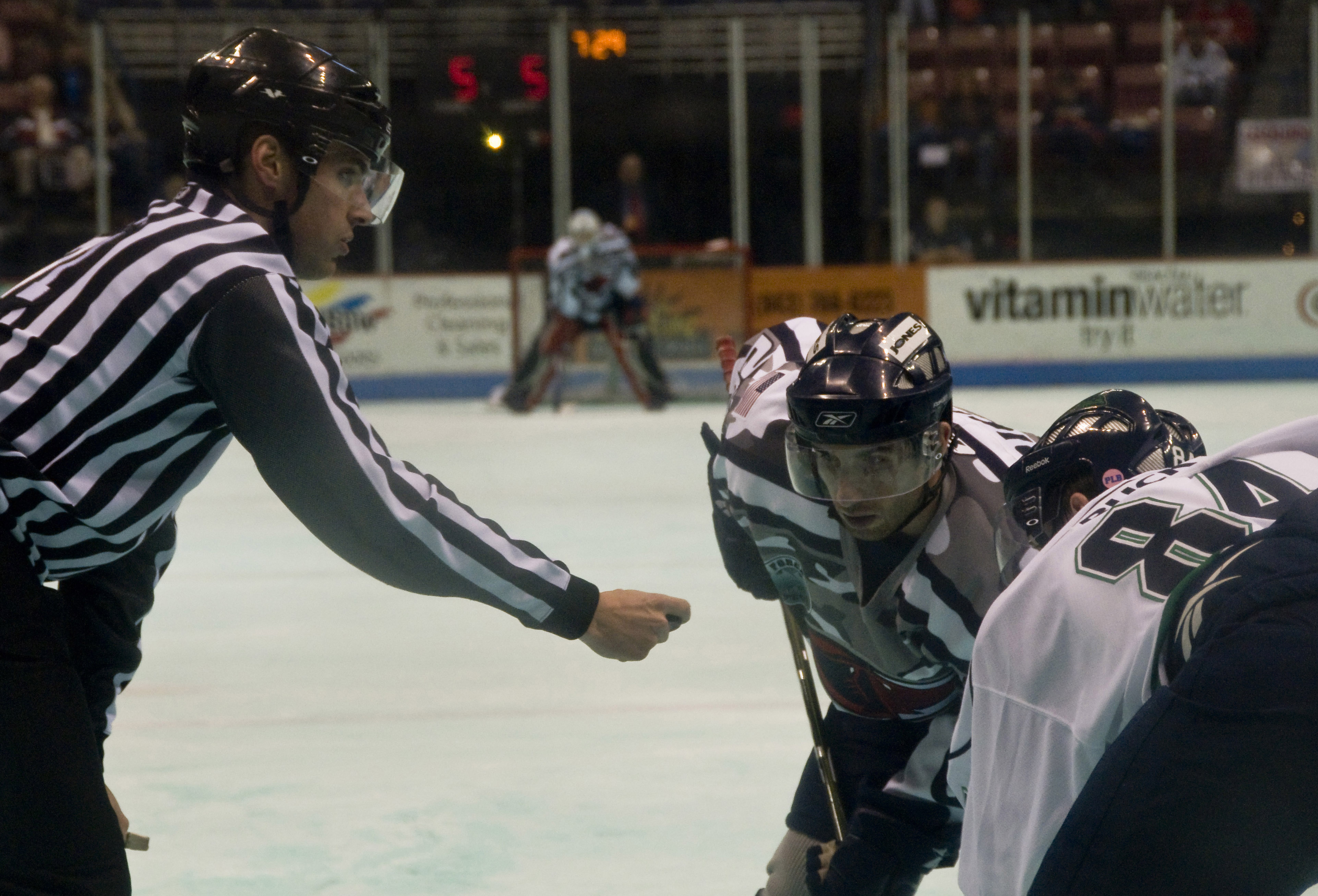 Forward Rob Ricci with the South Carolina Stingrays hockey team faces off against his Florida Everblades opponent, left wing Brandon Buck March 12th at the North Charleston Coliseum. The Stingrays captured a spot in the 2010 Kelly Cup Playoffs March 12 with their win against Florida.